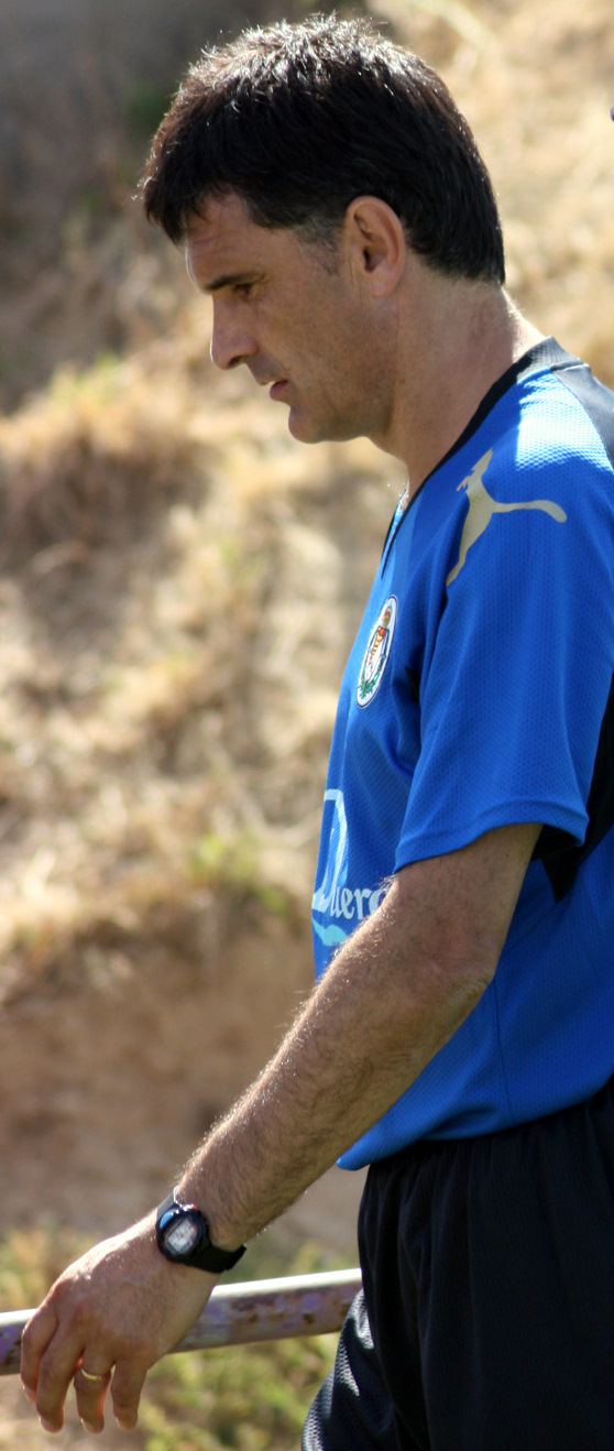 José Luis Mendilibar, retired football player and football trainer.